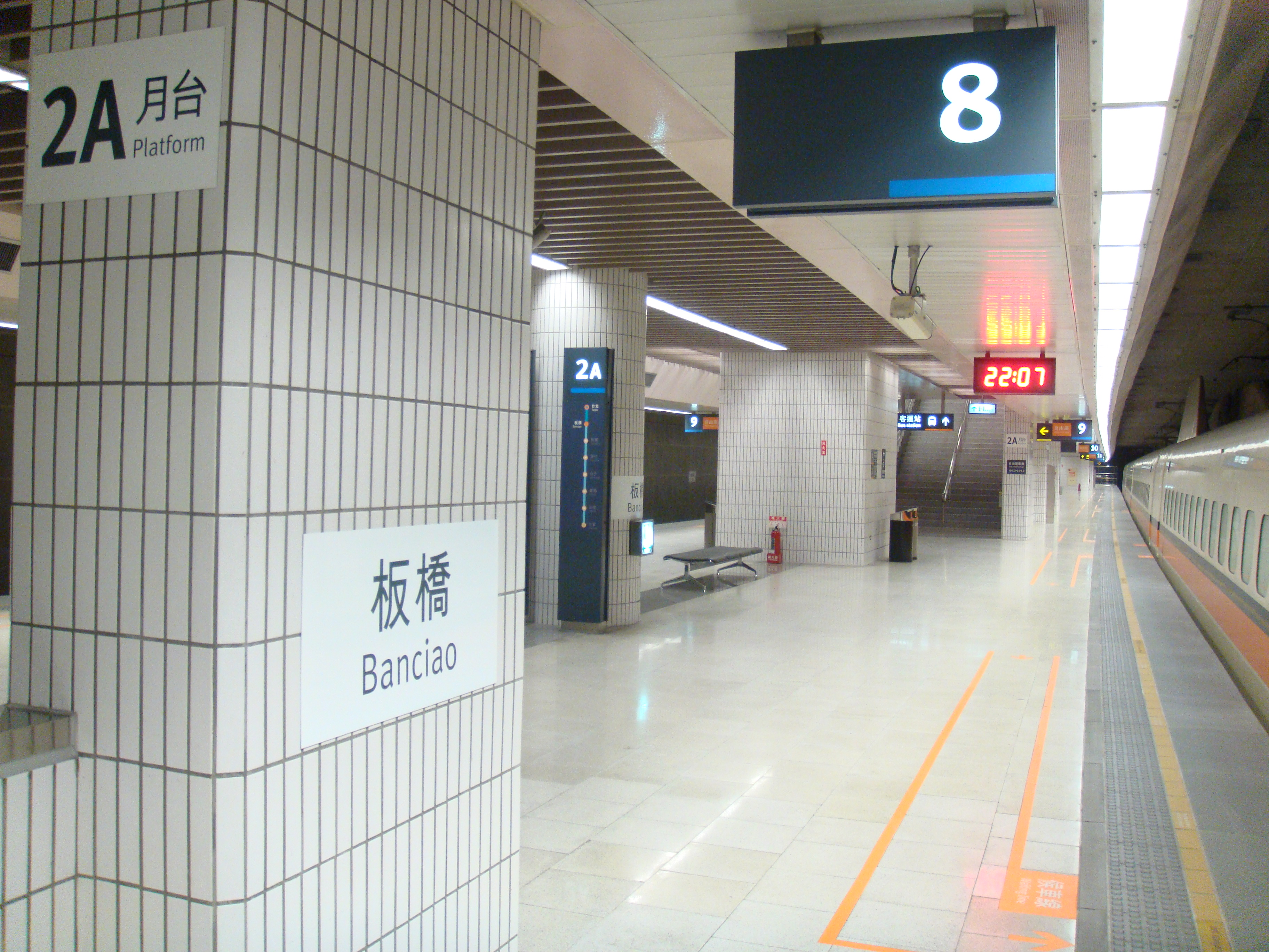 High Speed Rail Platform 2A, Banciao Station, Taiwan.